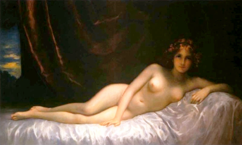 Liegender Frauenakt